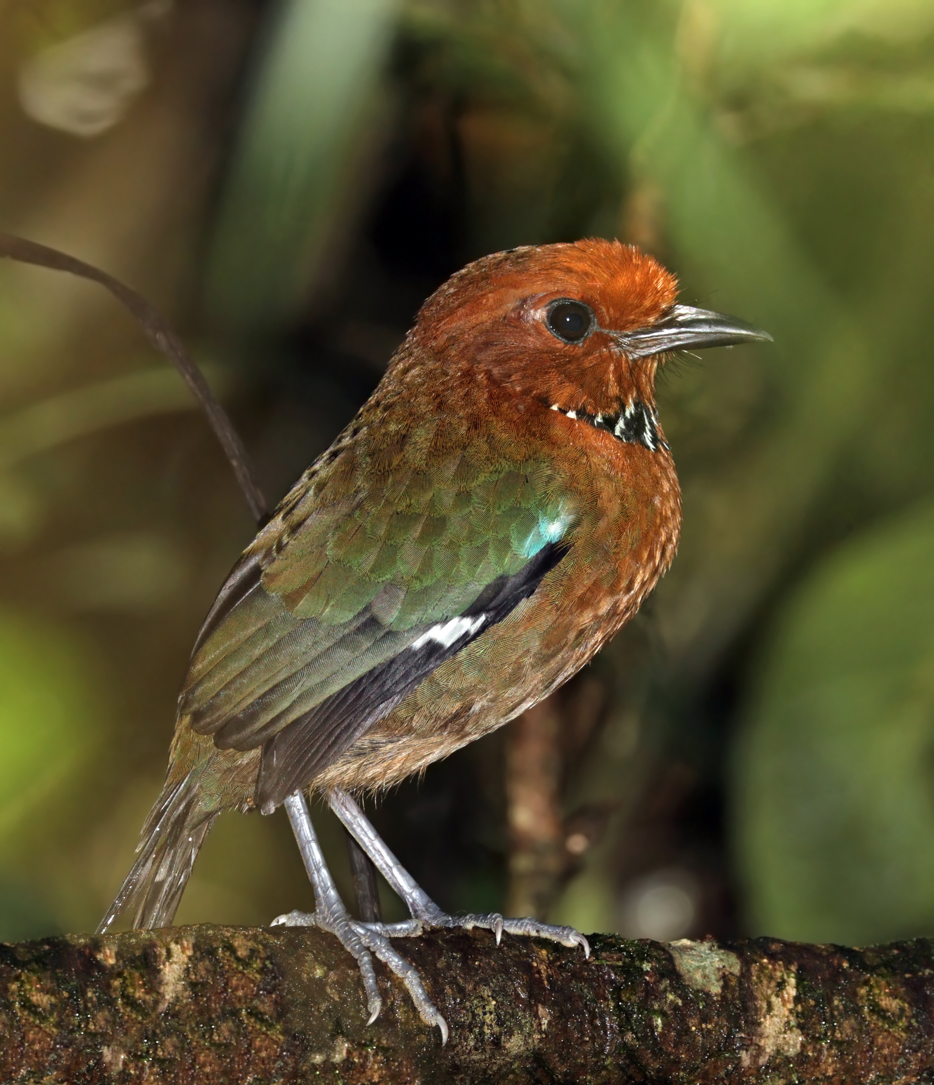 Rufous-headed ground-roller (Atelornis crossleyi), Ranomafana National Park, Madagascar